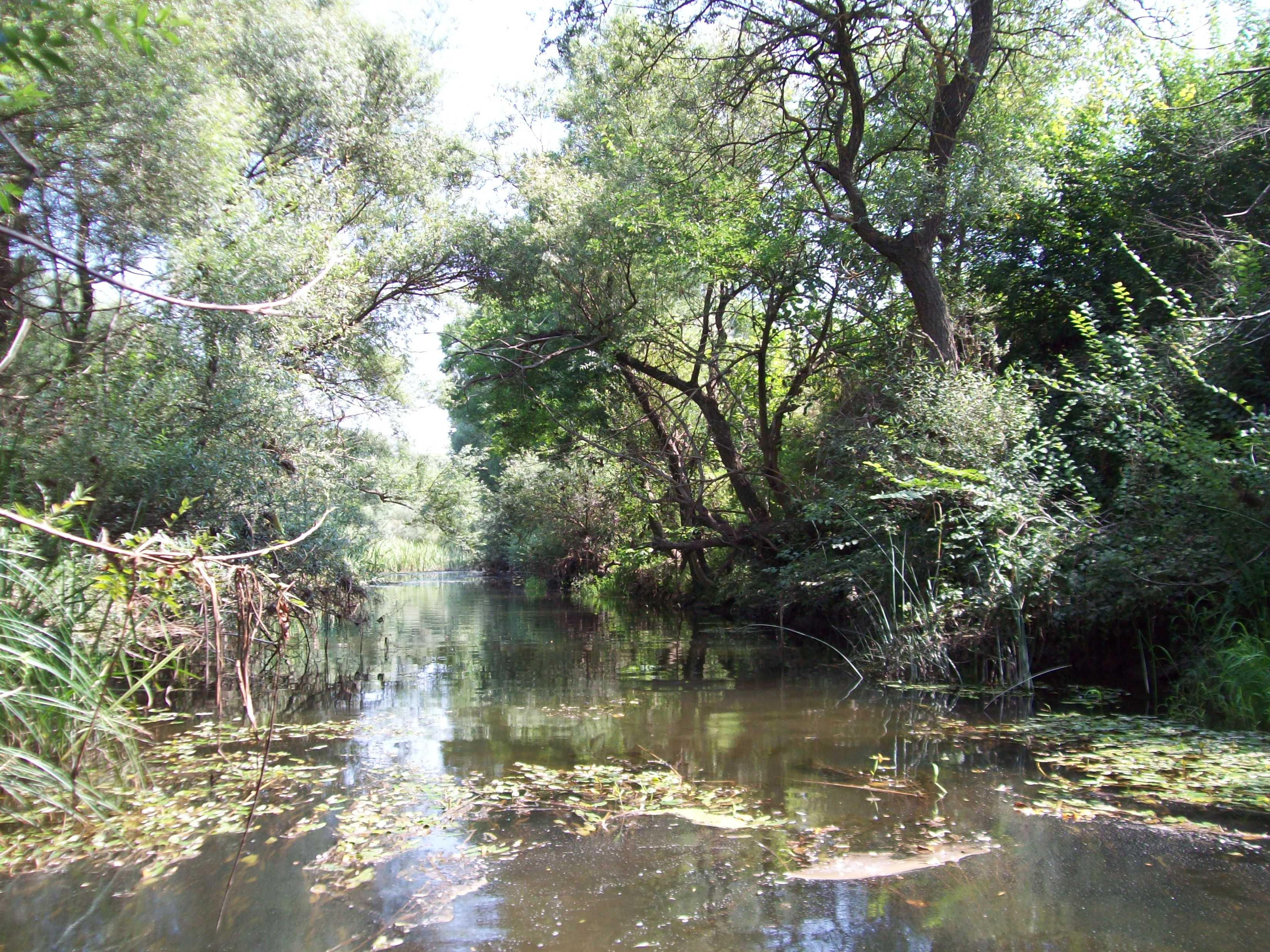 Sredetska-River-near-Prohod